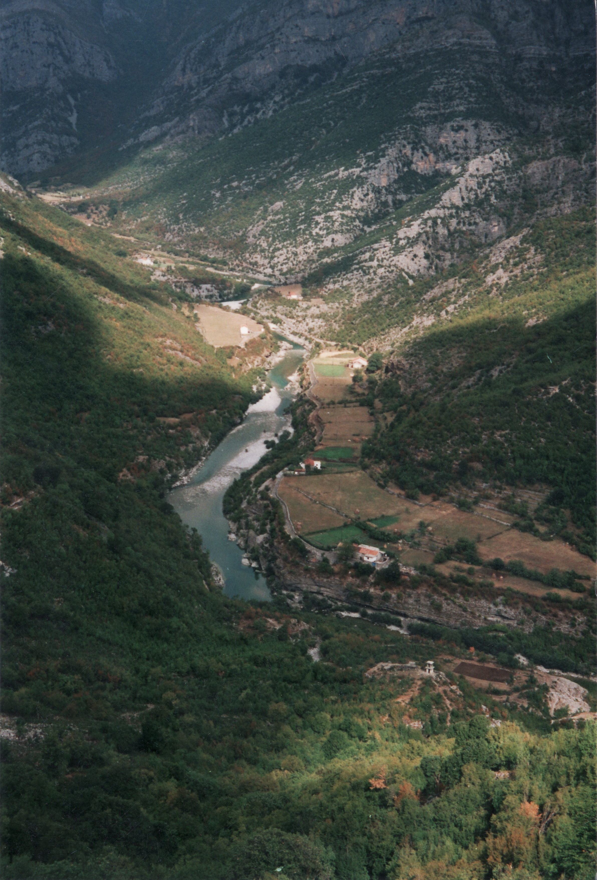 Settlement Pattern in the Cem Gorge, Albania, Near Selce